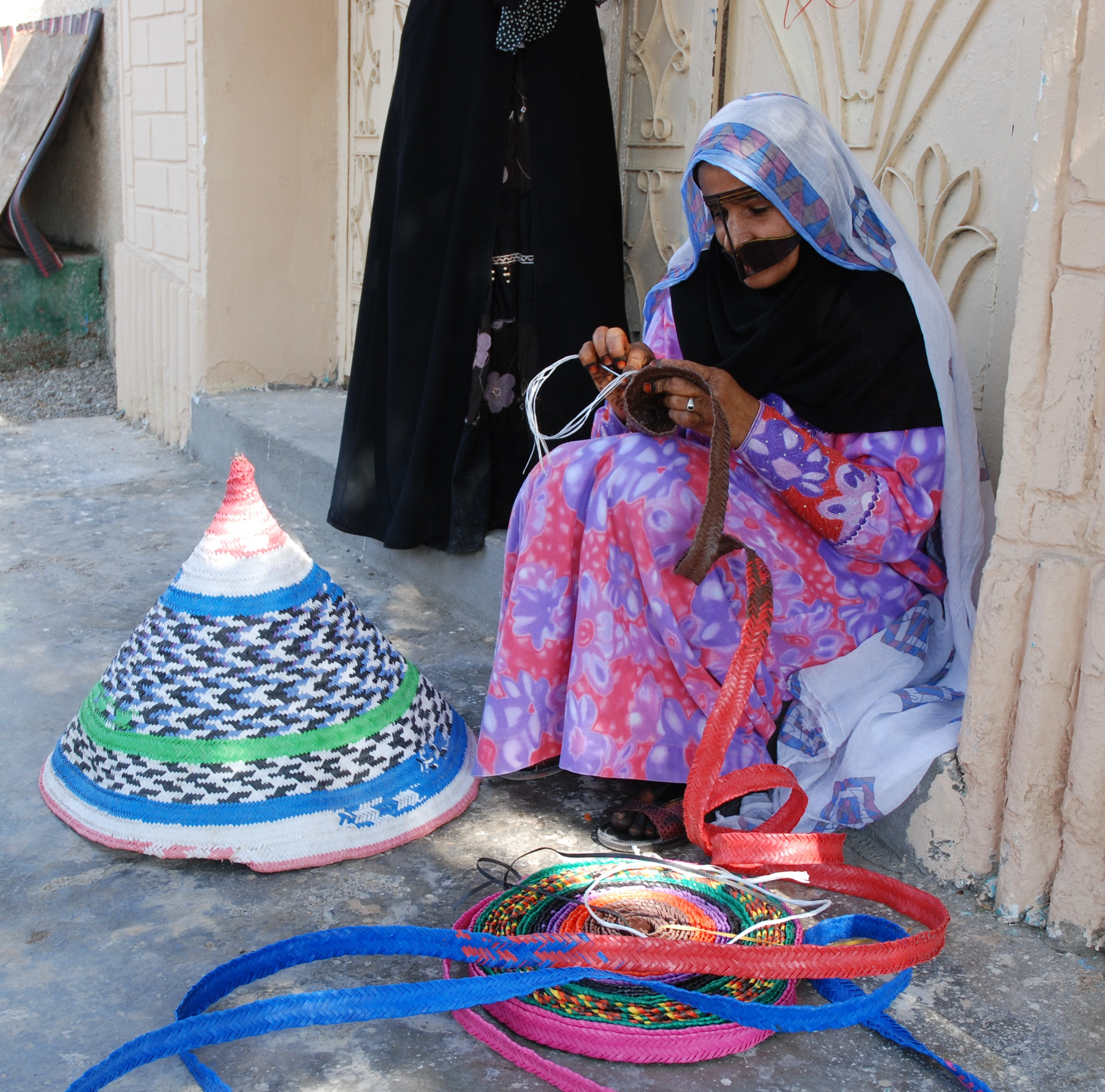 Craftswoman in northern Oman